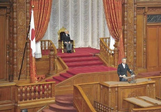 Emperor Akihito attended the Convocation Ceremony of the Diet at the National Diet Building in Chiyoda Ward, Tōkyō Metropolis on January, 2013. Bunmei Ibuki, Speaker of the House of Representatives, addressed at the Chamber of the House of Councillors.